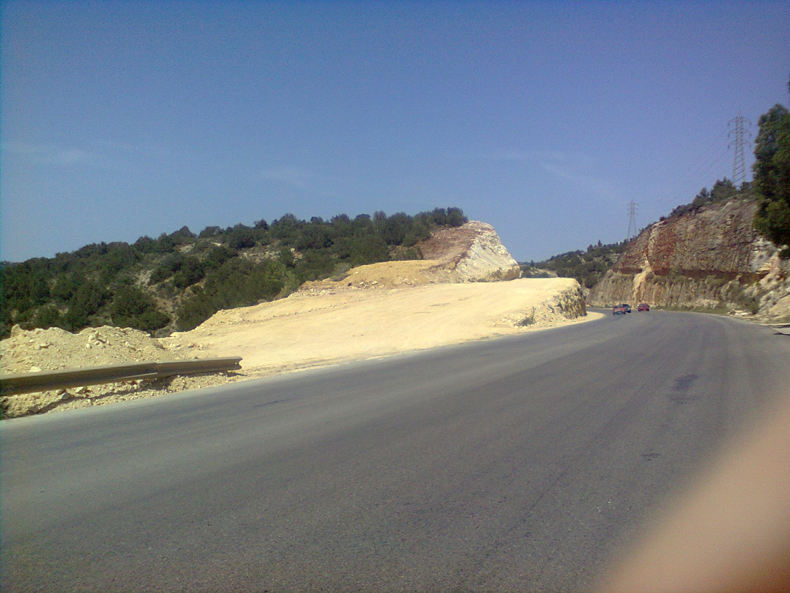 Severe deforestation of Jebel Akhdar near Wadi el Kouf bridge.